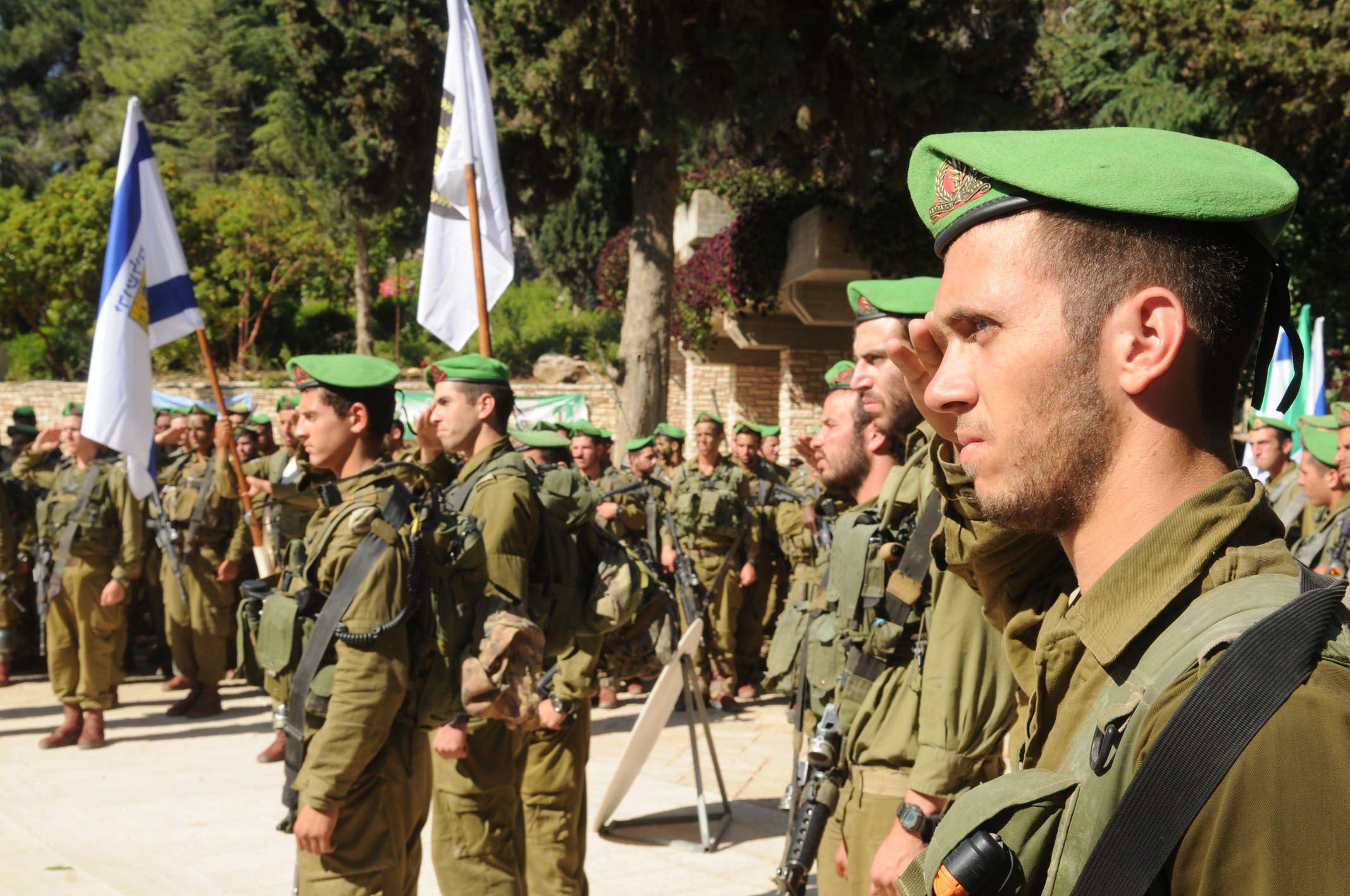 June 1st, 2011. The Nachal Brigade during a night-time trek consisting of 400 soldiers, undertaken between Tuesday and Wednesday, May 31st to June 1st. The trek's purpose was to lead the soldiers through historical sites in Israel and teach them about the Harel Brigade, one of the first brigades in the IDF (now in reserve) which had been famously commanded by Yitzhak Rabin. The soldiers began their journey at the Harel Brigade Monument at Mt. Hadar and concluded it at Mt. Herzl, pausing throughout at sites such as military cemeteries in order to pay their respects to the fallen soldiers.